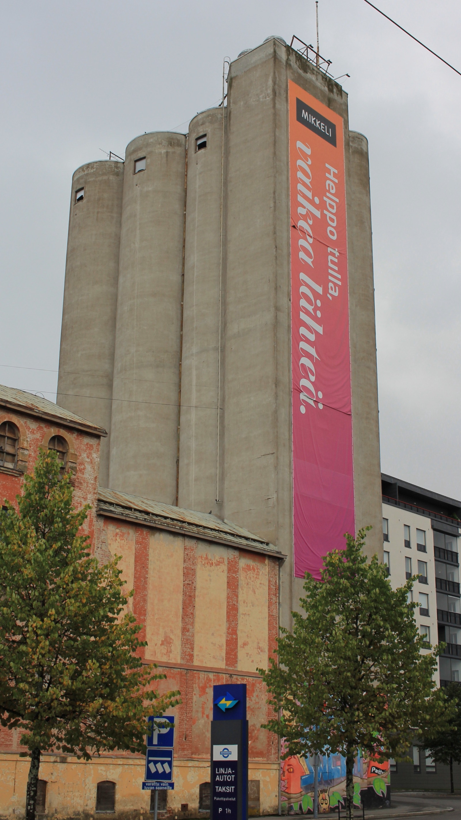 Former grain silos of a mill in Mikkeli, Finland.